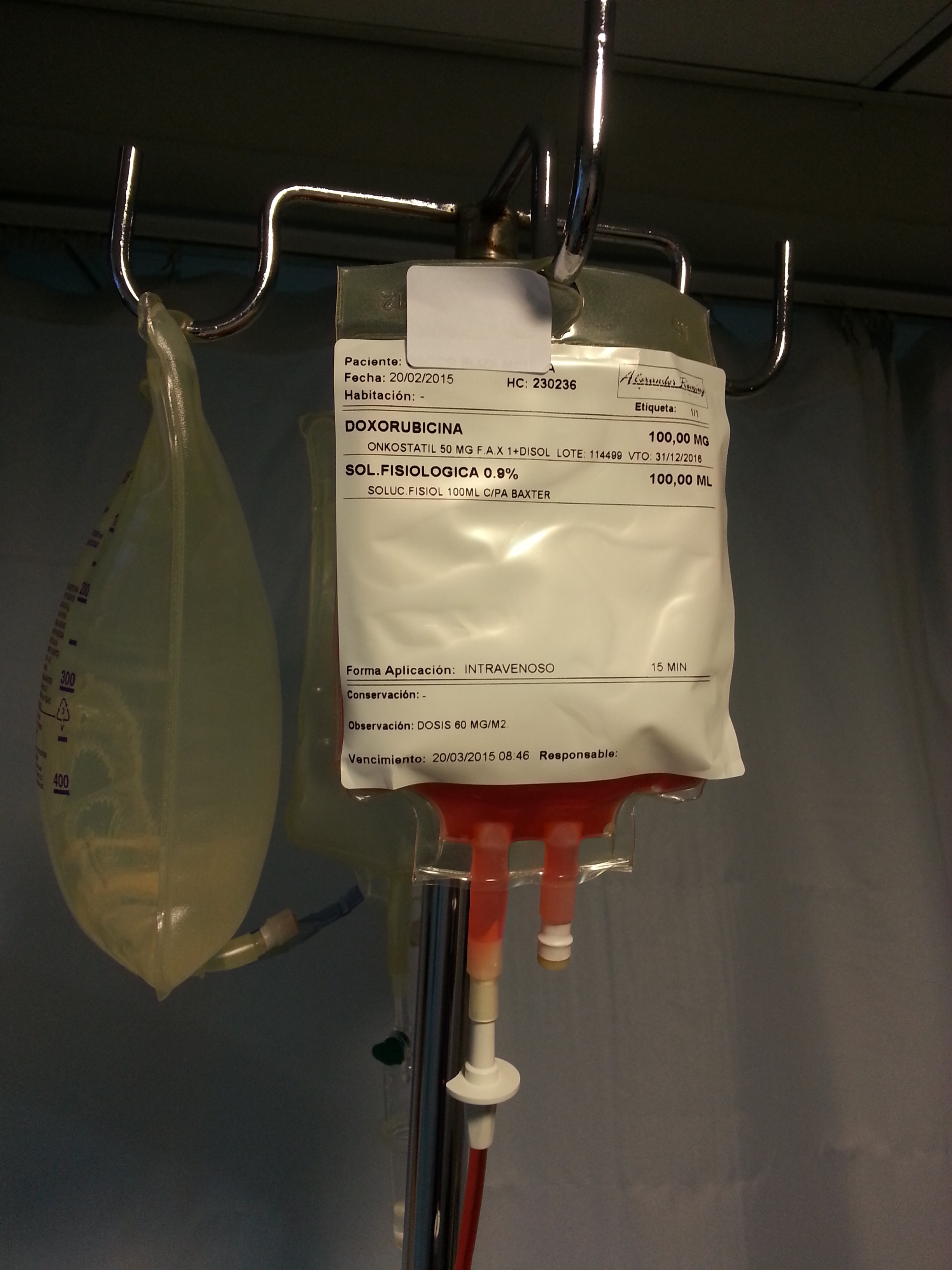 Doxorubicin is commonly used in the treatment of a wide range of cancers. Note the characteristic red color of doxorubicin.